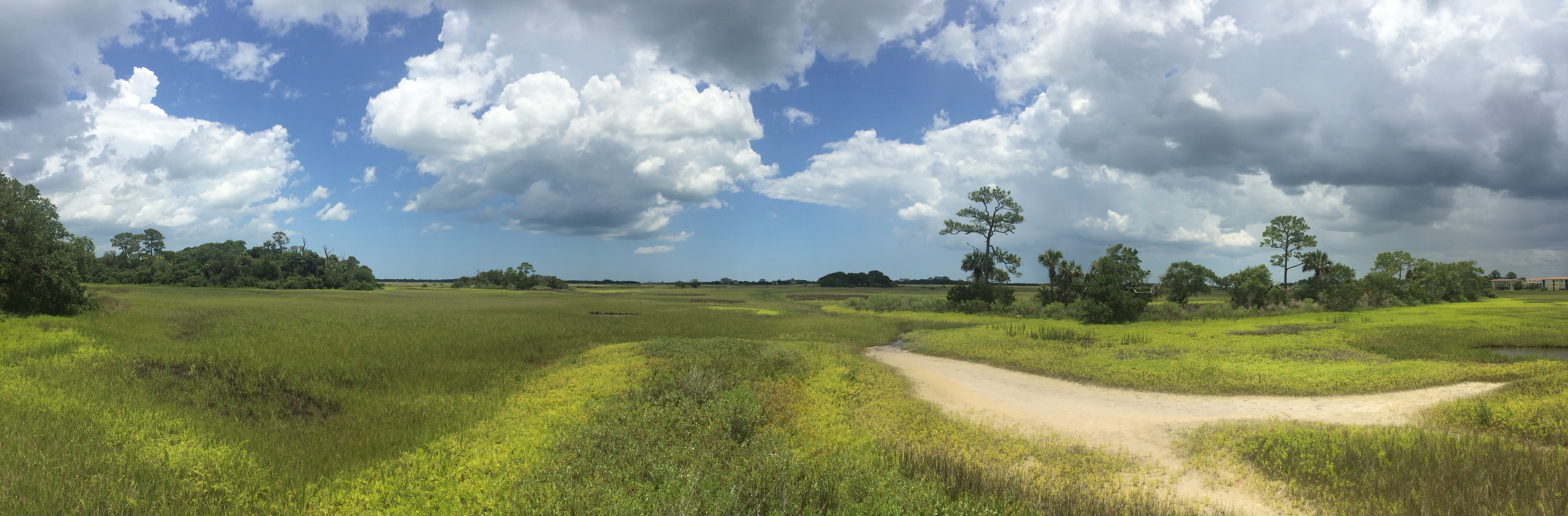 A panorama of the location of Fort Mose